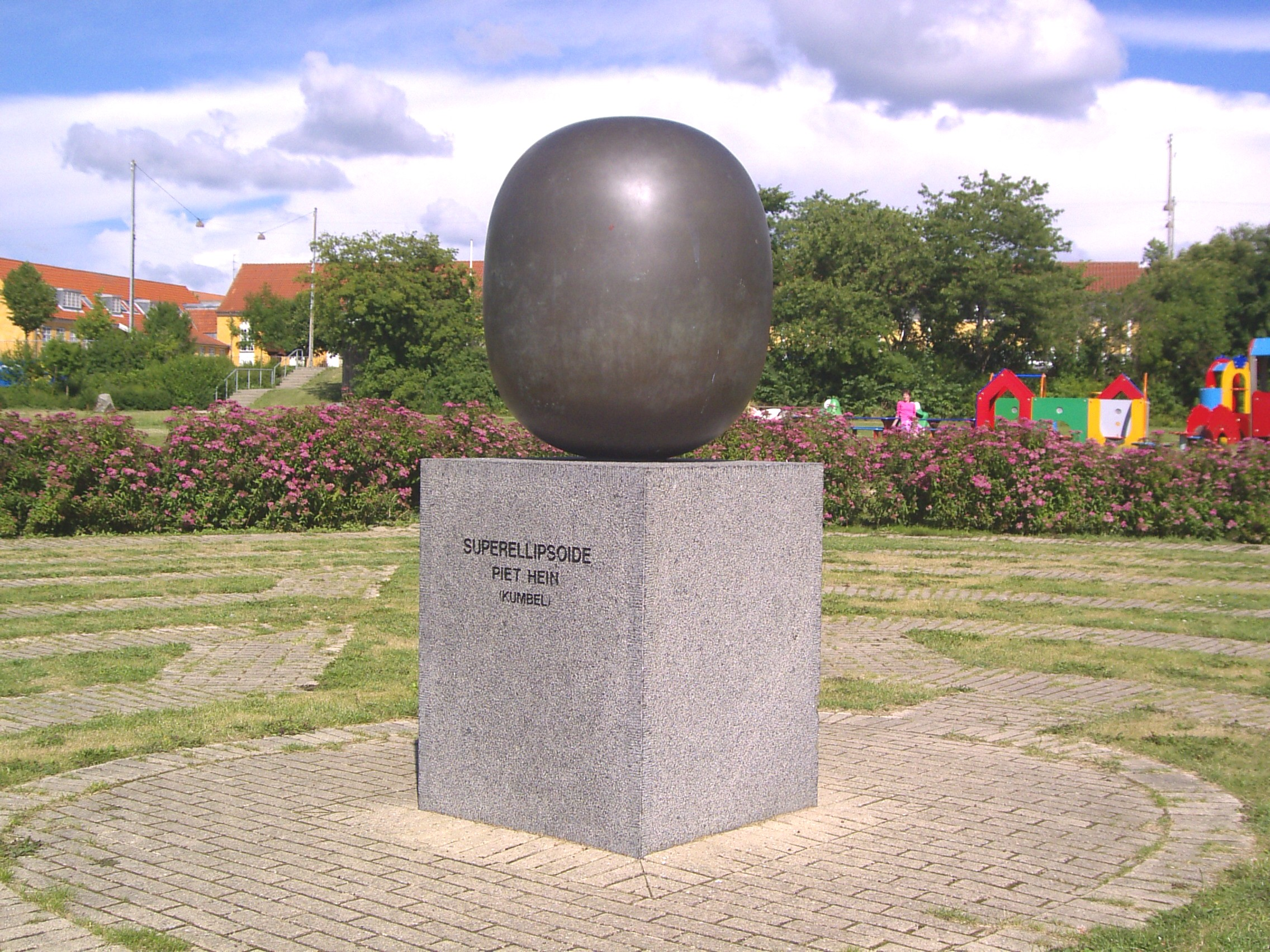 Piet Heins superellipsoide (Superellipse). In Kumbelparken in Farum municipality.